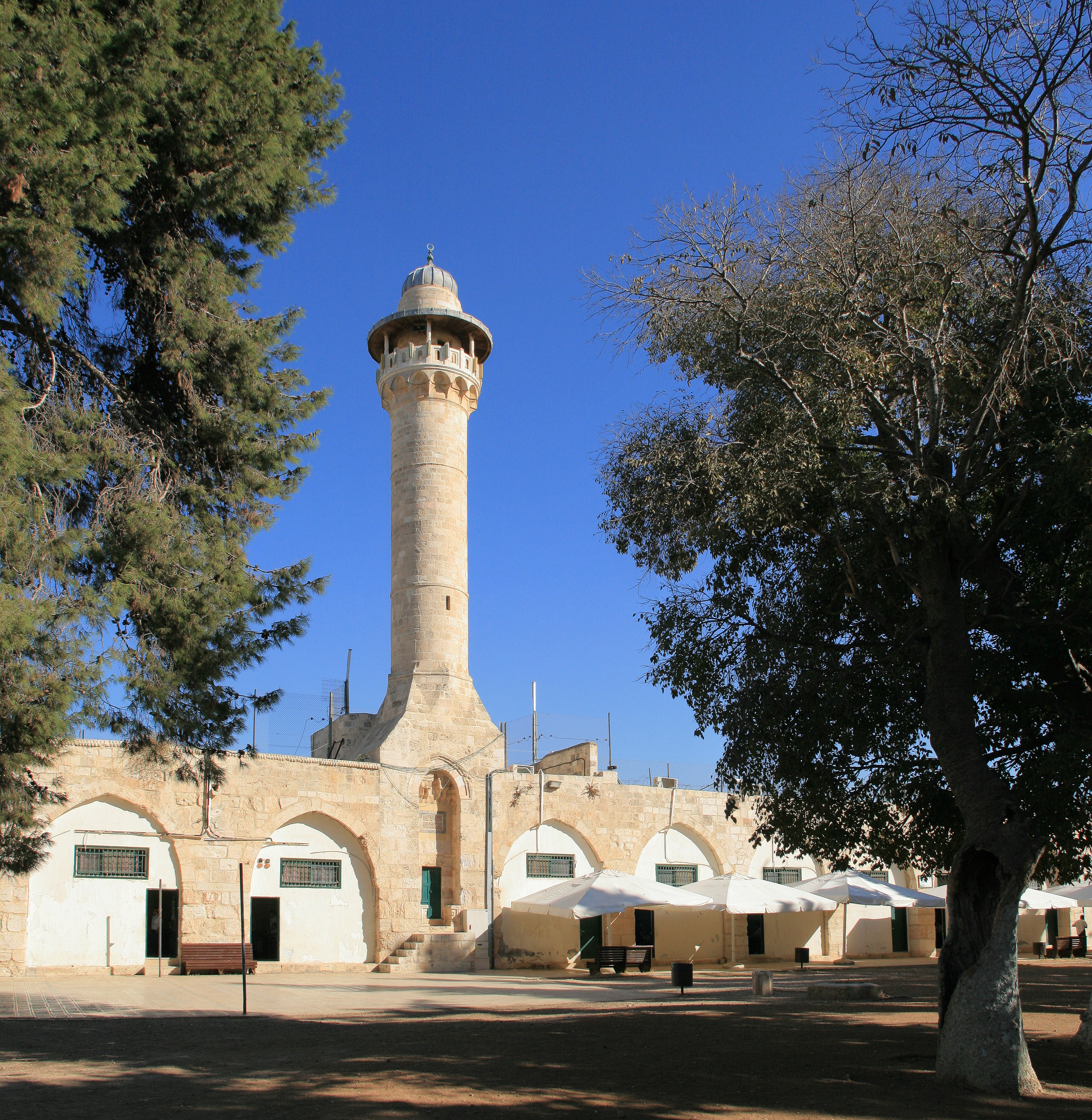 Tribes Tower, Temple Mount, East Jerusalem